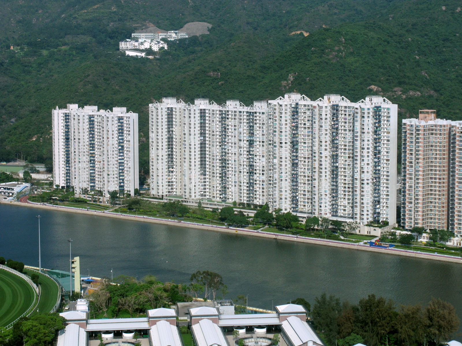 Pictorial Garden